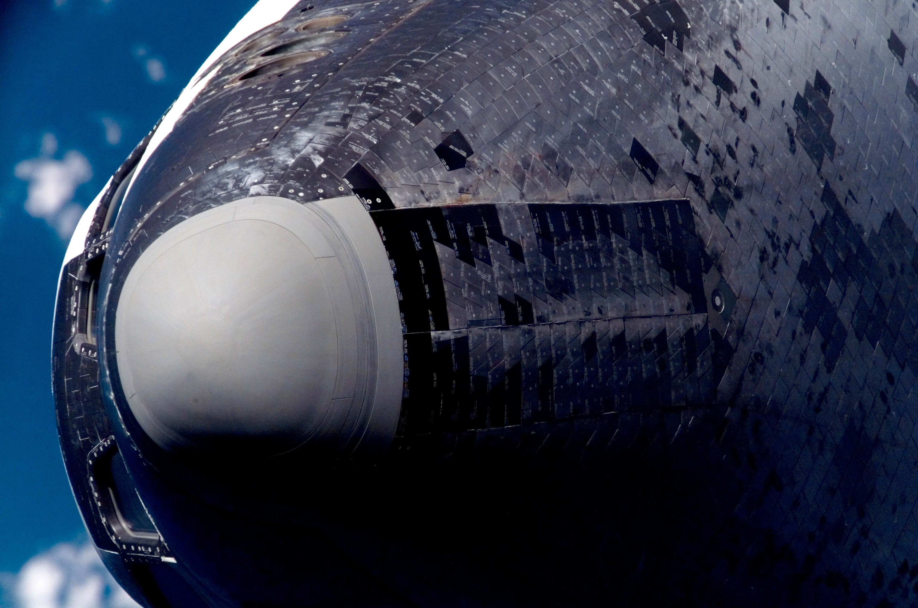 This is one of a series of images of different areas of Space Shuttle Endeavour as it approached the International Space Station and performed a back-flip to accommodate close scrutiny. This image shows Endeavour's nose cone and surrounding area.